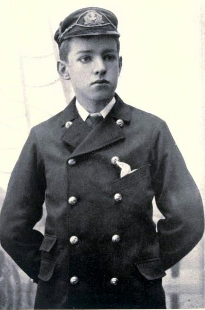 Ernest Henry Shackleton, aged 16.